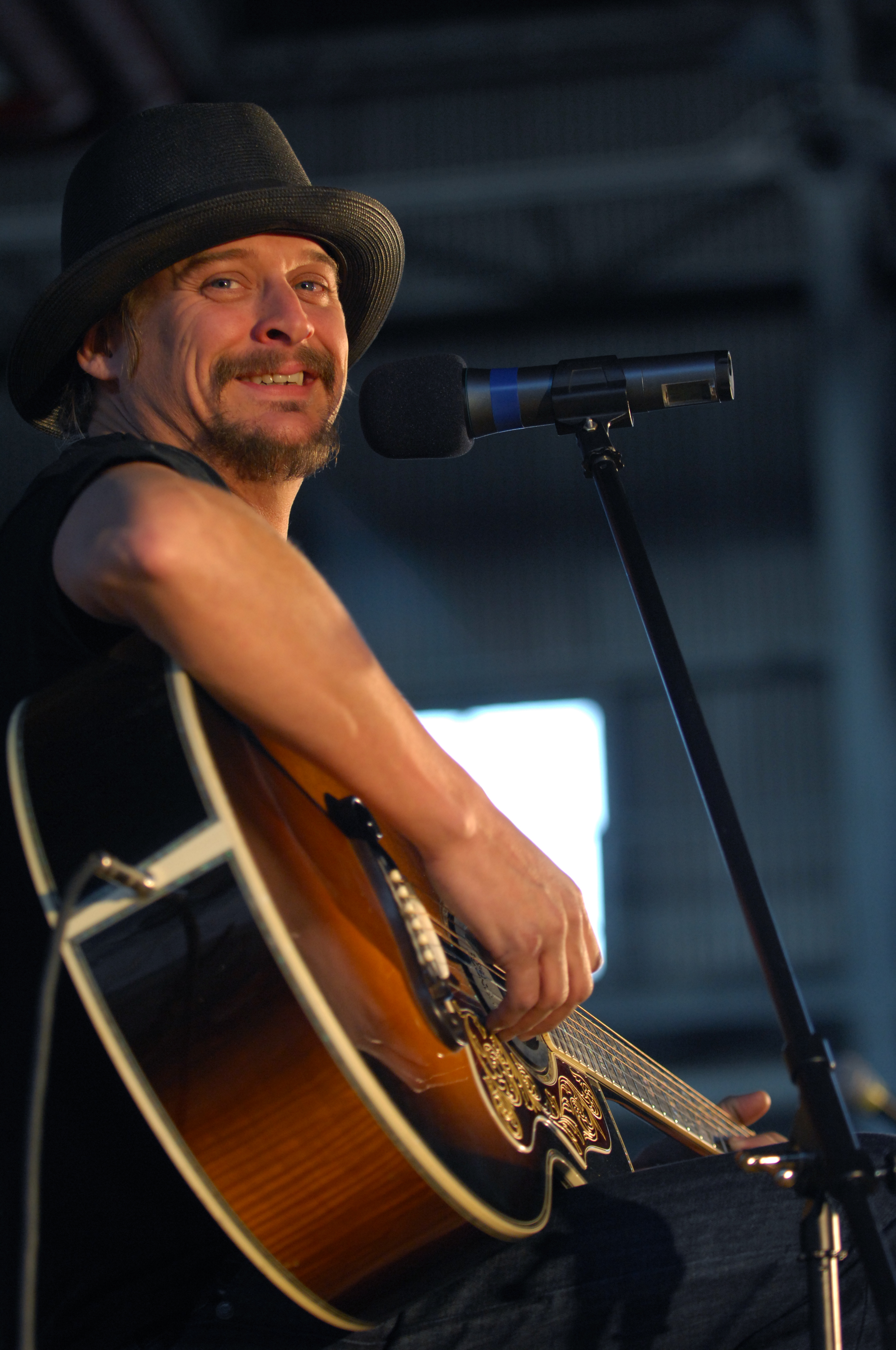 AVIANO AIR BASE, Italy-- "Rock Star" Kid Rock smiles big for the camera while performing as part of a USO holiday show held for the Aviano community, Dec. 22, 2007. Navy Adm. Michael G. Mullen, chairman of the Joint Chiefs of Staff, arrived in Aviano early Saturday afternoon from down range, bringing entertainers and celebrities Robin Williams, Lewis Black, Kid Rock, Lance Armstrong, Rachel Smith, the reigning Miss USA, and Ronan Tynan an Irish Tennor on the Chairman's United Service Organizations Holiday tour.